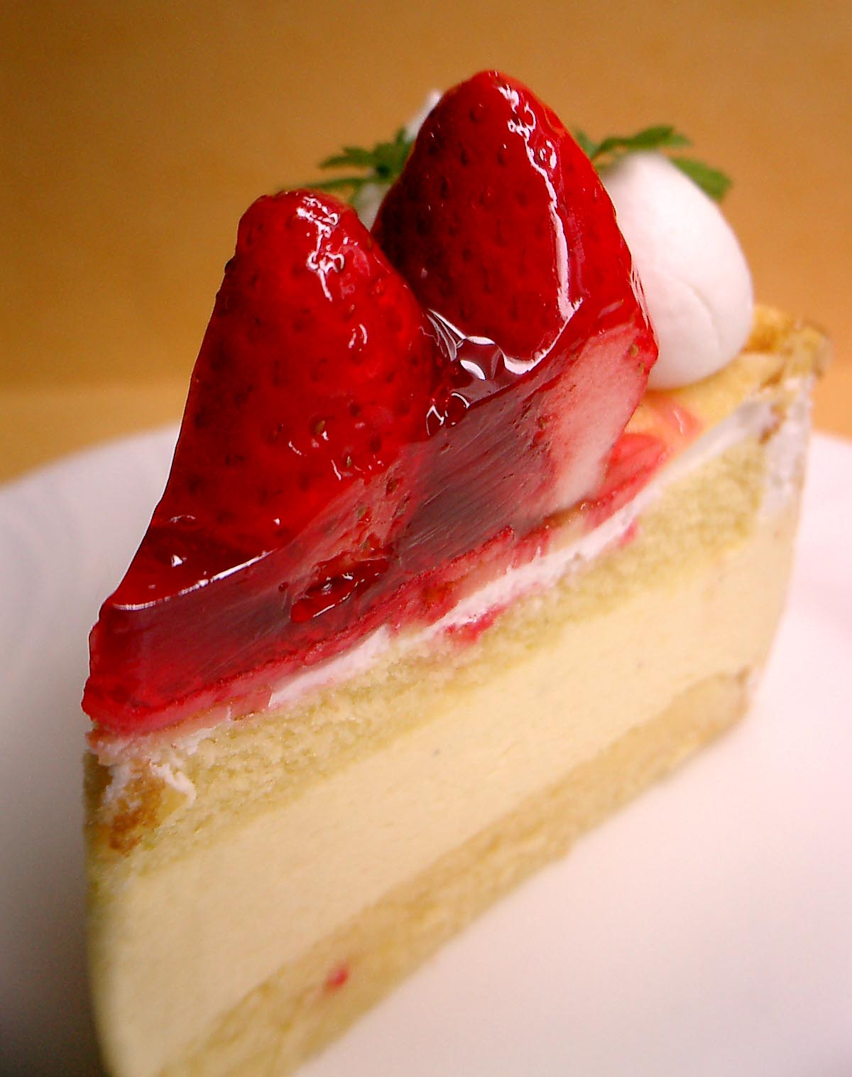 Strawberry crapeshortcake